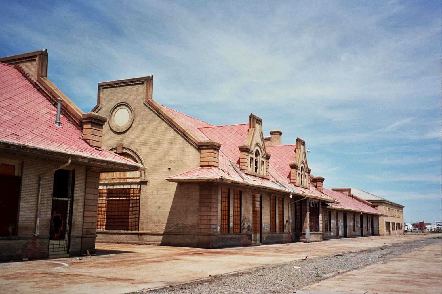 Former railway station in Billings, Montana.